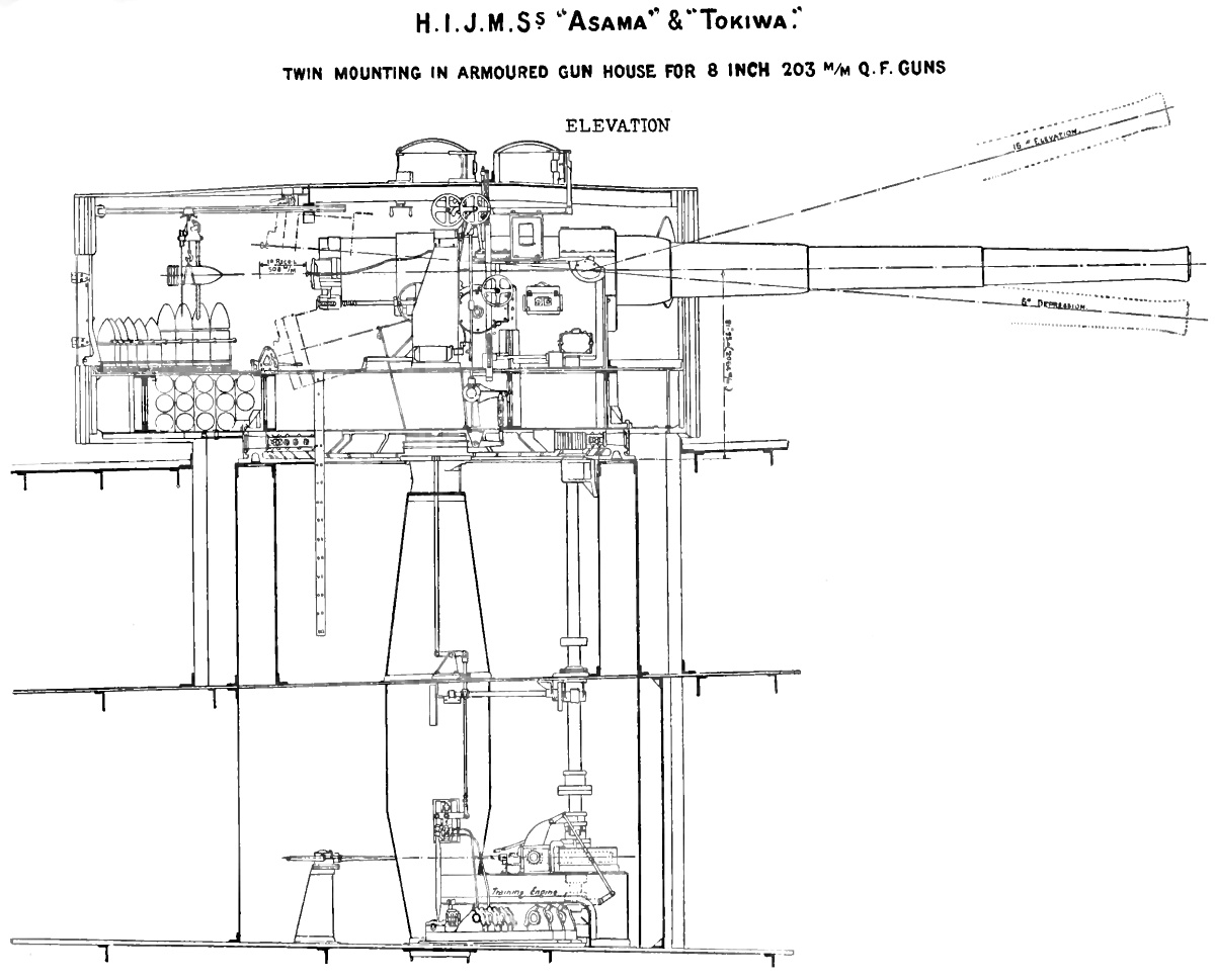 Right elevation diagram of 8 inch gun turret of Japanese Asama class cruiser. Training gear can be worked by electric, hydraulic or hand power. There is provision for storage of 30 projectiles in the gunhouse. Cordite is supplied through a central trunk, protected by an armoured barbette.